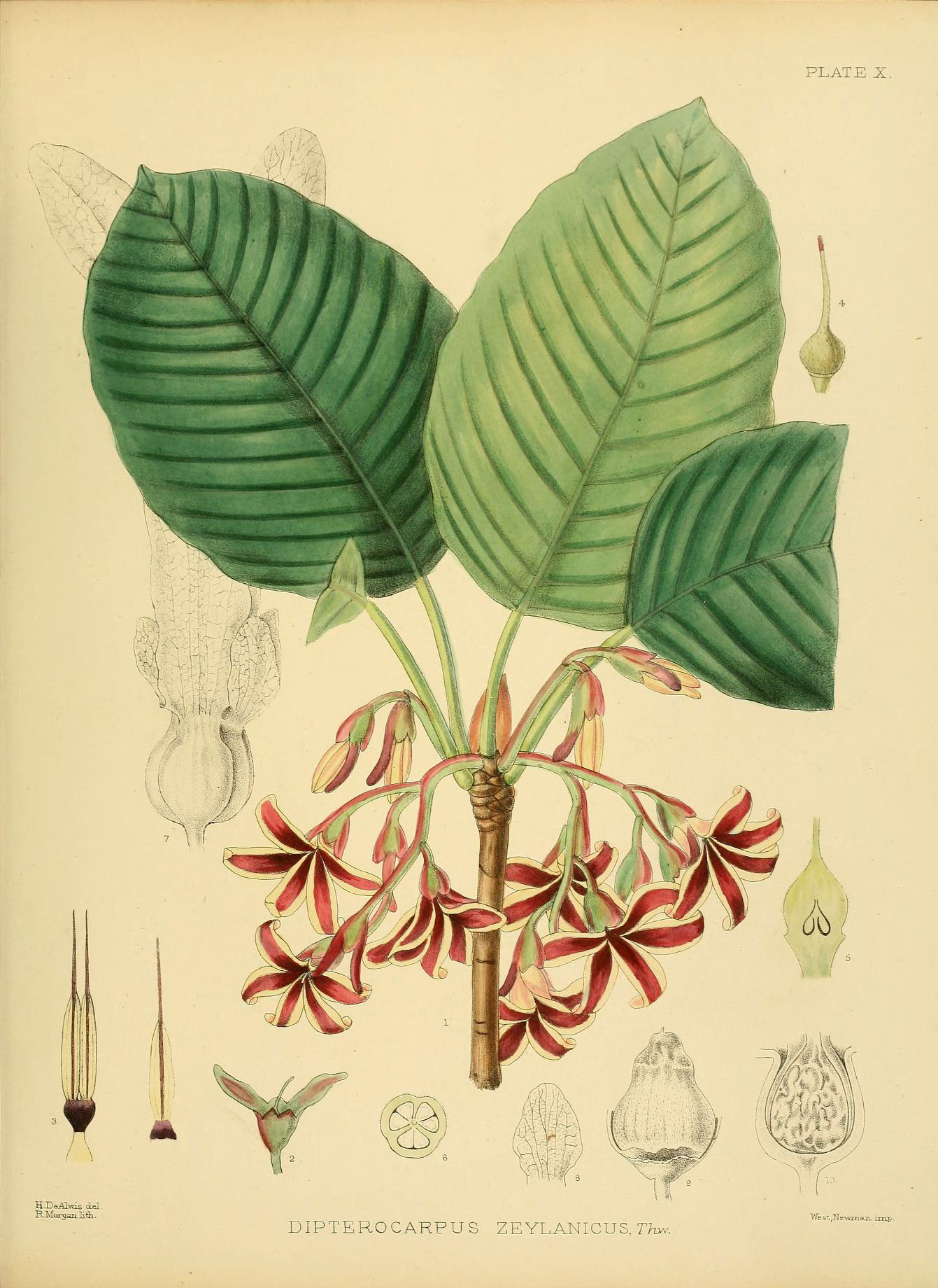 PLATE X. H.D«Afaris Ad R-Morgan li^i . DIPTEROCARPUS ZEYLANICUSTW Vfest,)ifewHian iizrp